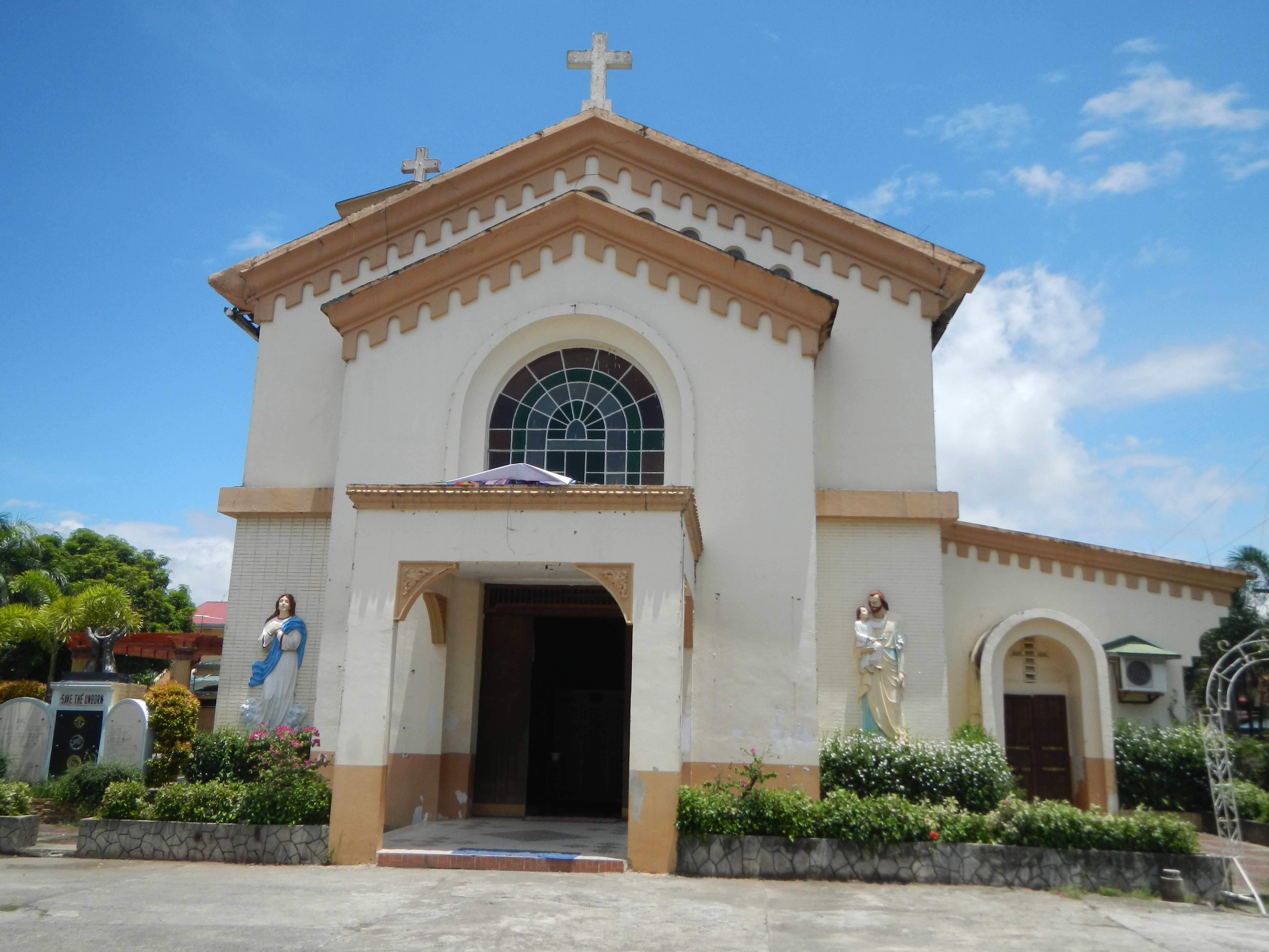 Barangay Iba, Hagonoy, Bulacan:Centro, Proper - landmark is the most beautiful Heritage Saint Anthony of Padua Parish Church in front of the Barangay Hall and Ibanian Park Place along the Malolos-Calumpit-Hagonoy interior Provincial Road.